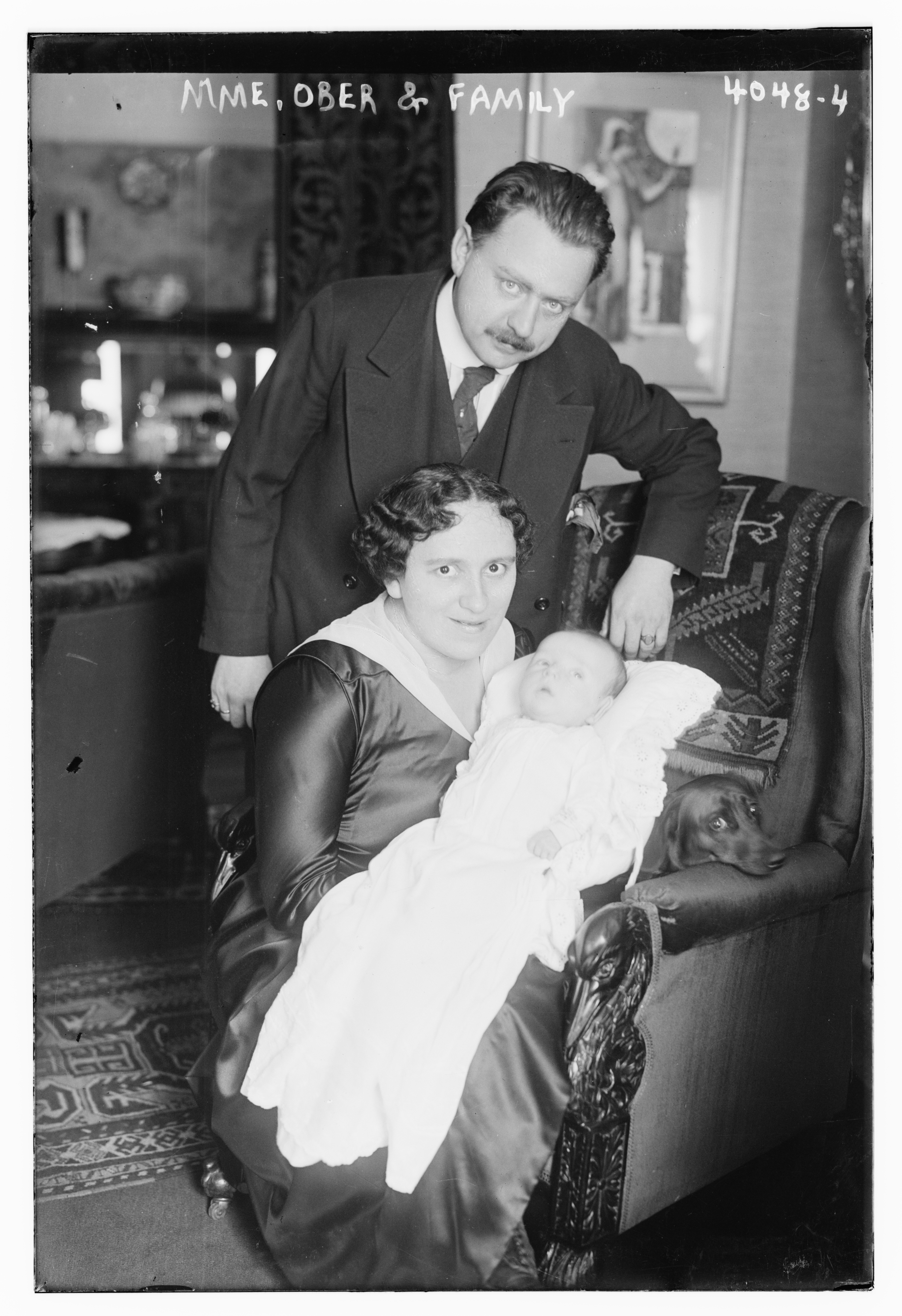 Margarethe Arndt-Ober in 1916